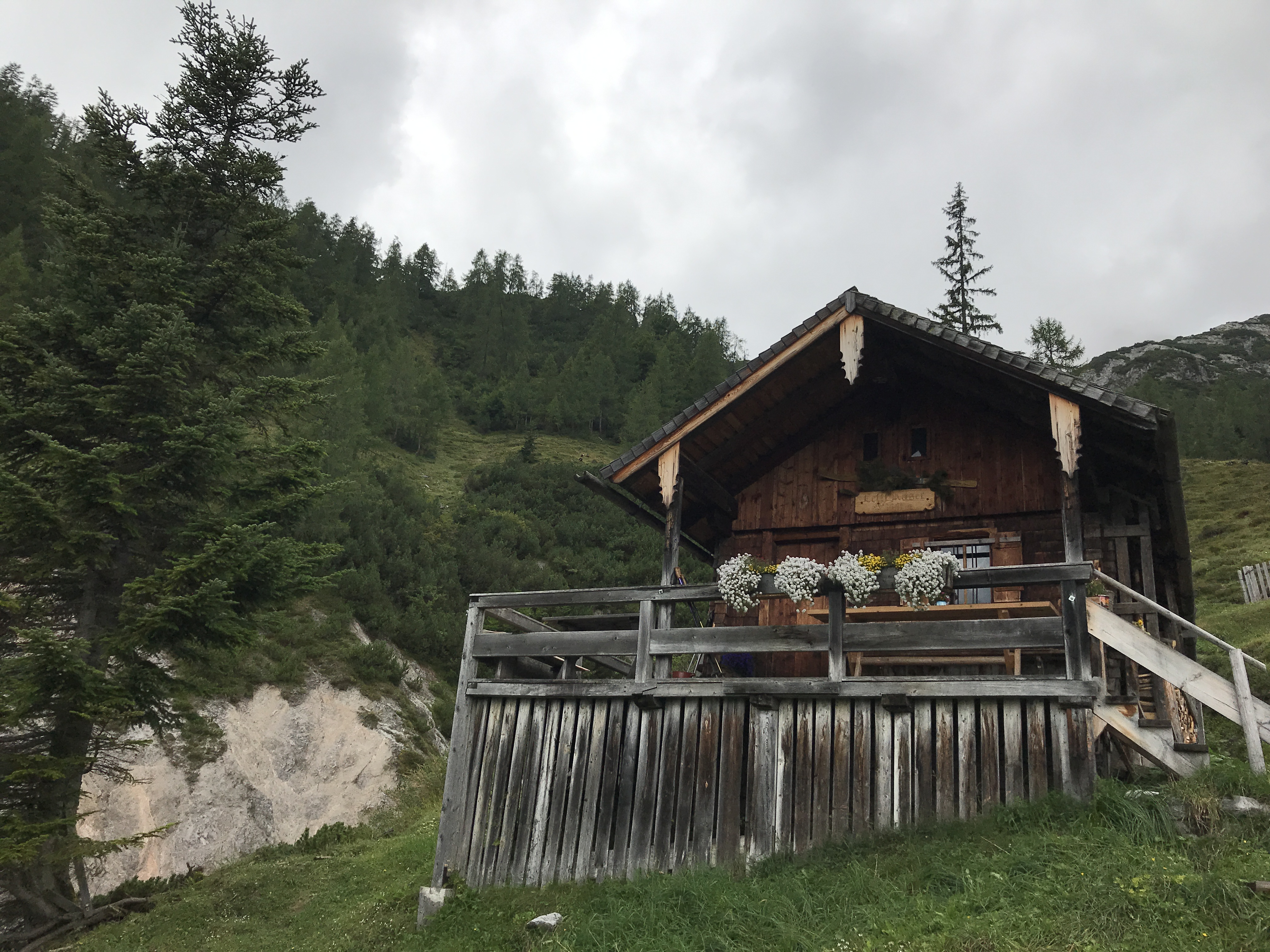 Lettlkaser hut in the Leogang mountains